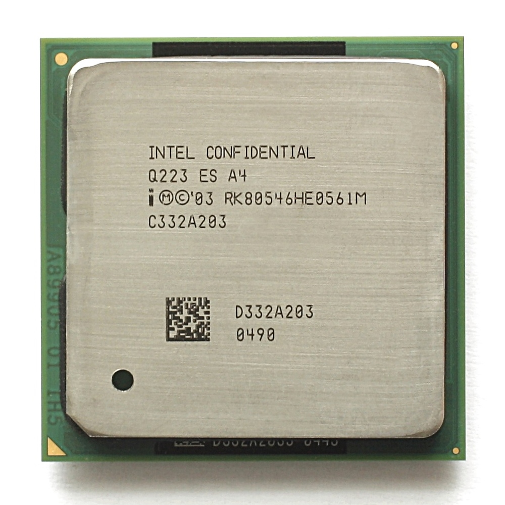 CPU Intel Mobile Pentium 4 Engineering Sample, Prescott